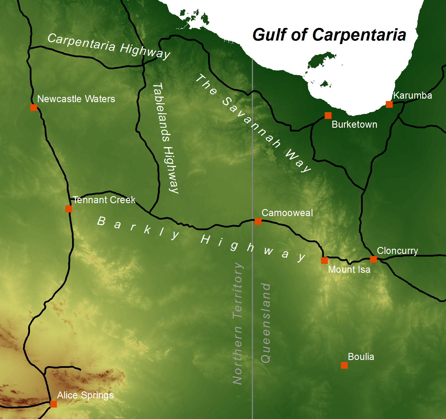 This is a map of the Barkly Tableland, which extends from the eastern Northern Territory (near Daly and Newcastle Waters) into Western Queensland (almost to Mt Isa). The map features major highways and selected towns. The background is an elevation model, giving a rough idea of the tableland's area, which is the somewhat uniformly coloured area around the appropriately named Barkly and Tableland Highways. The green in that area corresponds to an elevation of about 200 to 300 metres. Elevation data is from the SRTM30 dataset published by the USGS, thus being in the public domain. The data has been retrieved via Roads and populated places have been taken from Natural Earth's 10m cultural vectors set at which is public domain as well. The map was created using ESRI ArcMap 10.2.2.